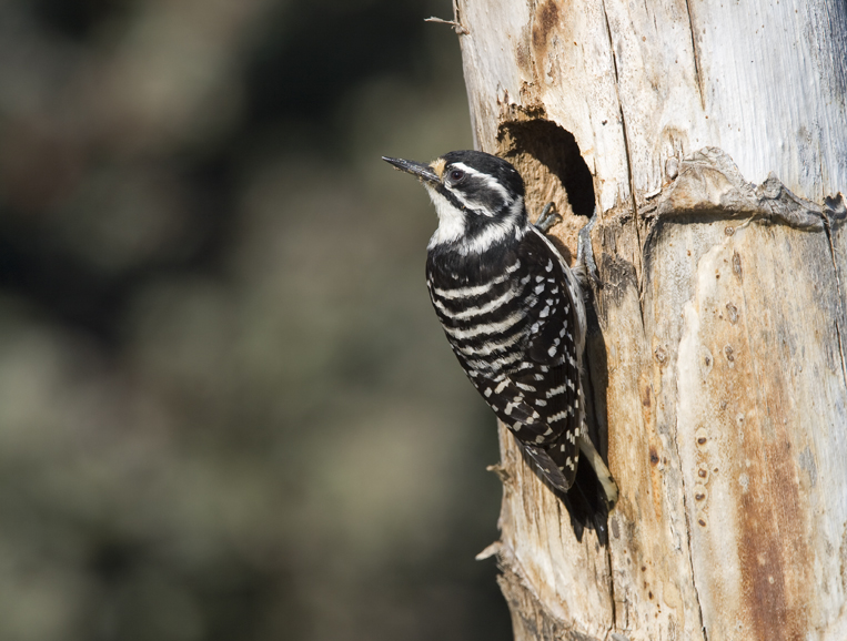 At female at her nest cavity in an agave stock near Morro Bay, CA